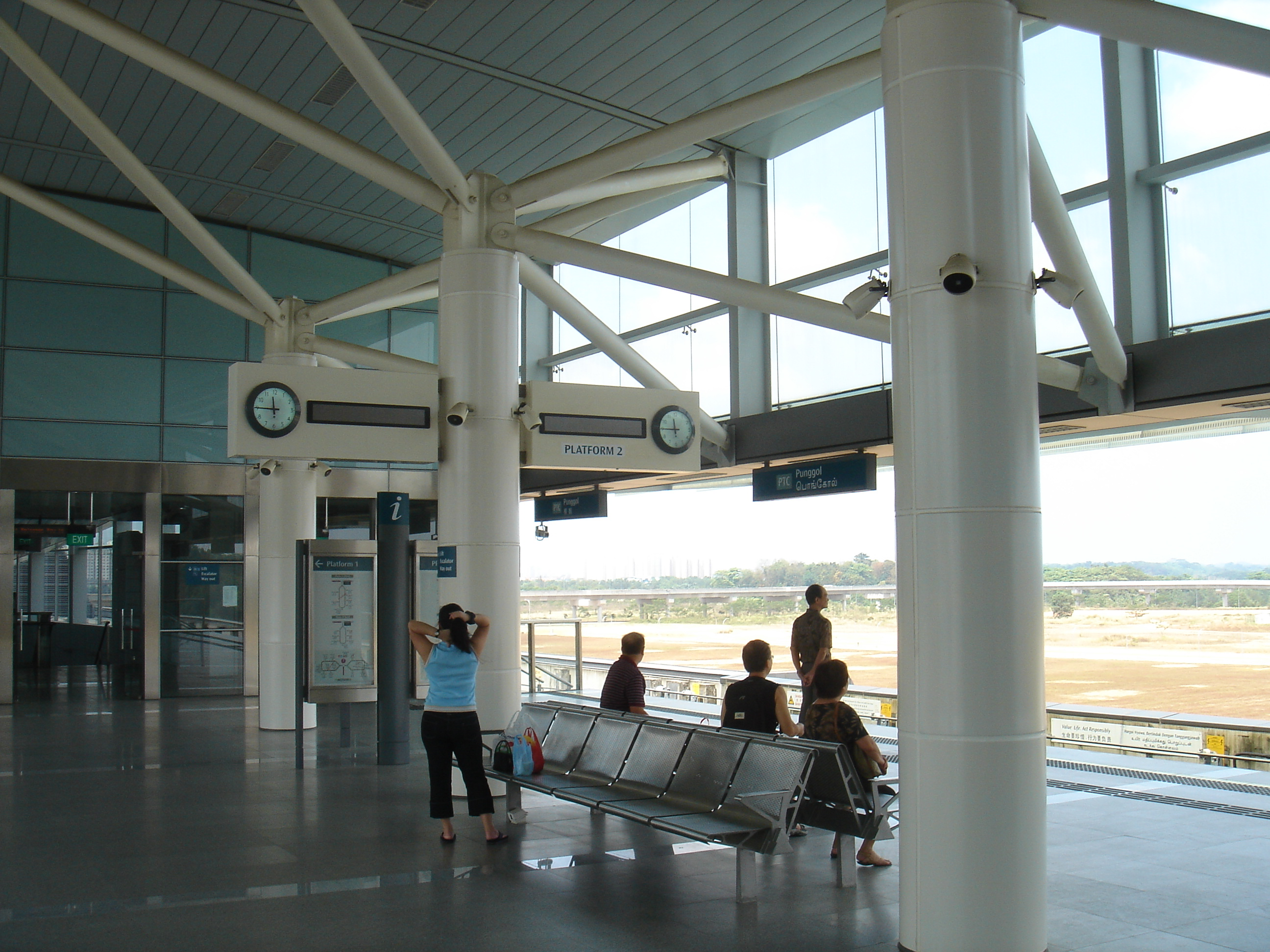 Punggol LRT Station, Platform Level, Singapore.